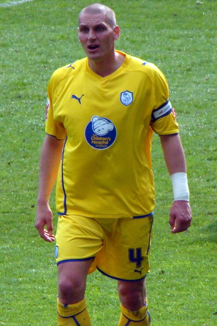 24/04/10 Cardiff V Sheffield Wednesday, Championship, Cardiff City Stadium, Cardiff, Wales